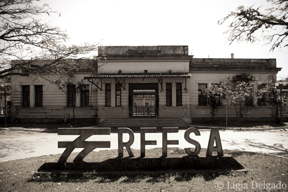 São José dos Campos Rail Station, in São José dos Campos, São Paulo, Brazil.